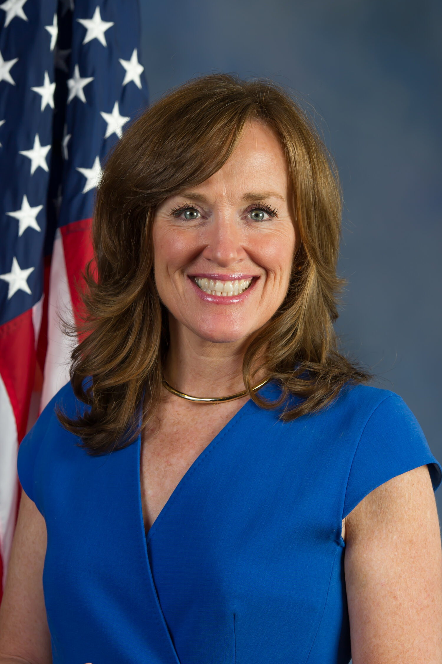 Kathleen Rice official photo